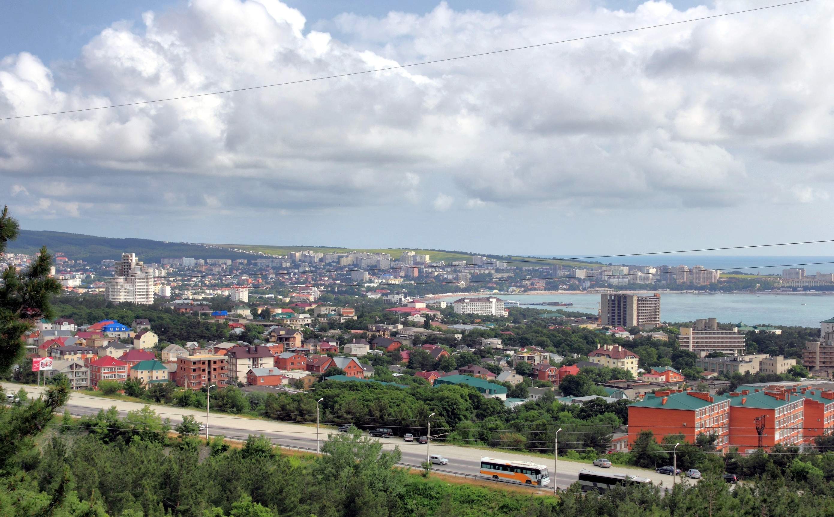 Gelendzhik. View of the city